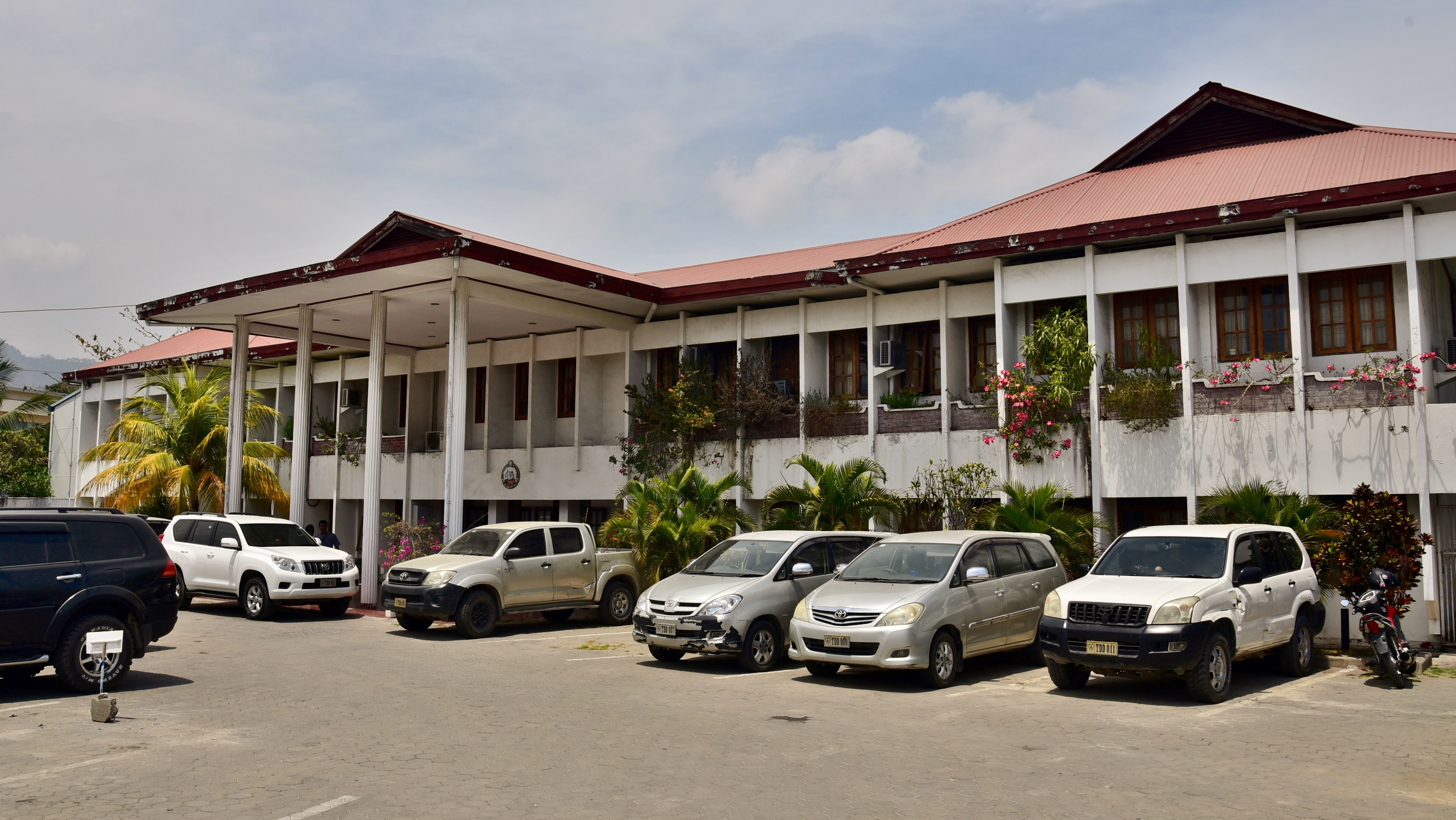 The Tribunal Distrital de Díli (District Court of Dili), Rua Abílio Monteiro, Dili, East Timor